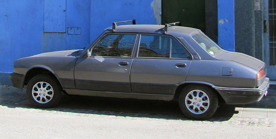 An Argentinian built late Peugeot 504, showing the locally developed rear design, in La Boca district of Buenos Aires, Argentina.